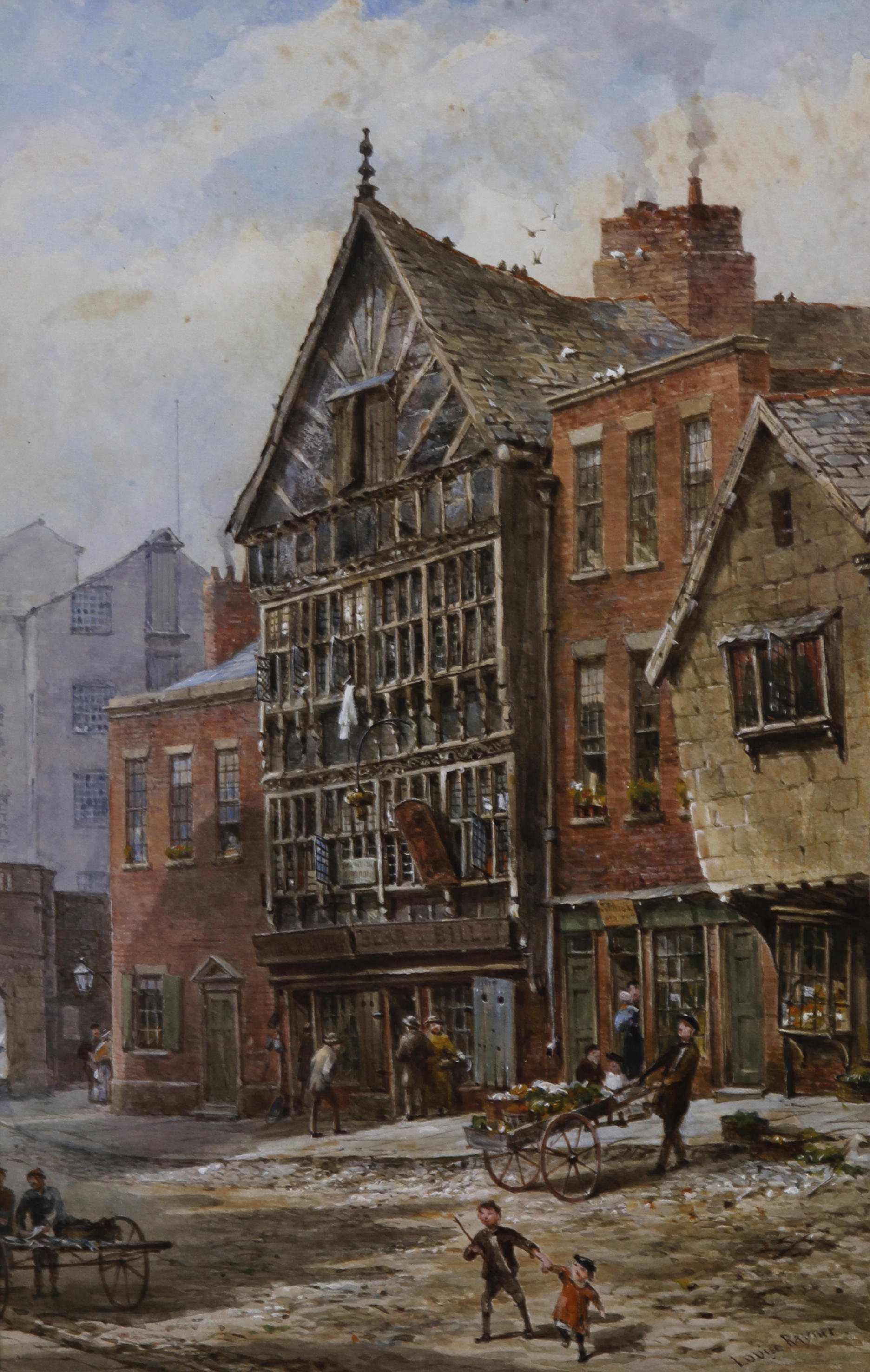 '"The Bear and Billet". Lower Bridge Street, Chester. Signed 'Louise Rayner'. Watercolour, 32 x 20.5 cm